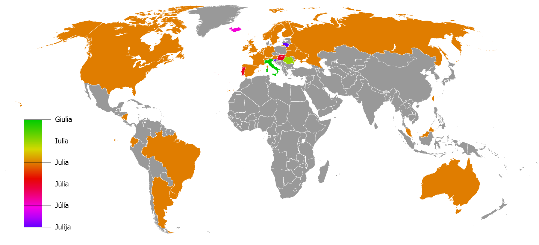 World map showing the countries where the names Julija, Júlía, Júlia, Julia, Iulia or Giulia are popular. Any color means the name is among the 100 most popular names either in the population or among newborns. Map created using GunnMap and data from multiple sources. This map was created with GunnMapGunnMap was created by Arthur Gunn and is available, free, at and attribute by linking to Name IDs and rank values used: Austria 4 1 Italy 6 1 Brazil 4 2 Sweden 4 3 Netherlands 4 3 Russia 4 5 Finland 4 6 Switzerland 4 6 Belarus 4 8 Faroe Islands 4 10 Ukraine 4 11 Spain 4 15 Nicaragua 4 22 Canada 4 24 Slovenia 1 24 Uruguay 4 25 Germany 4 29 Iceland 2 29 Lithuania 1 29 United States 4 31 Norway 4 33 Romania 5 33 Ireland 4 34 Ecuador 4 39 Slovakia 3 47 Taiwan 4 50 Malaysia 4 50 Portugal 3 50 United Kingdom 4 56 Scotland 4 56 Belgium 4 61 Argentina 4 65 France 4 68 Hungary 3 70 England 4 75 Australia 4 91